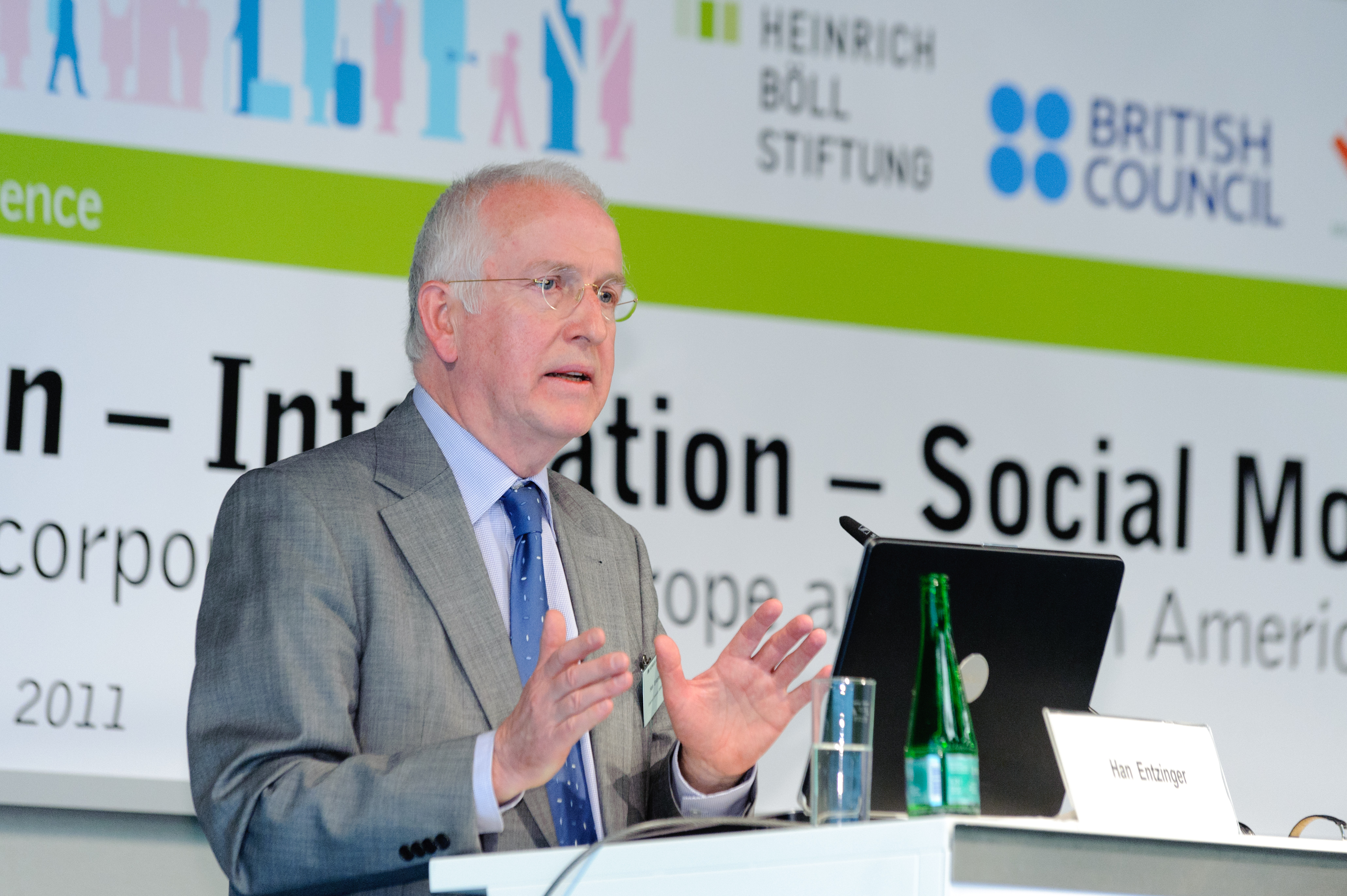 Prof. Han Entzinger, Erasmus University Rotterdam Foto: Stephan Röhl